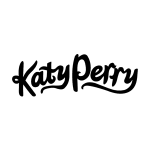 hudsonlogo